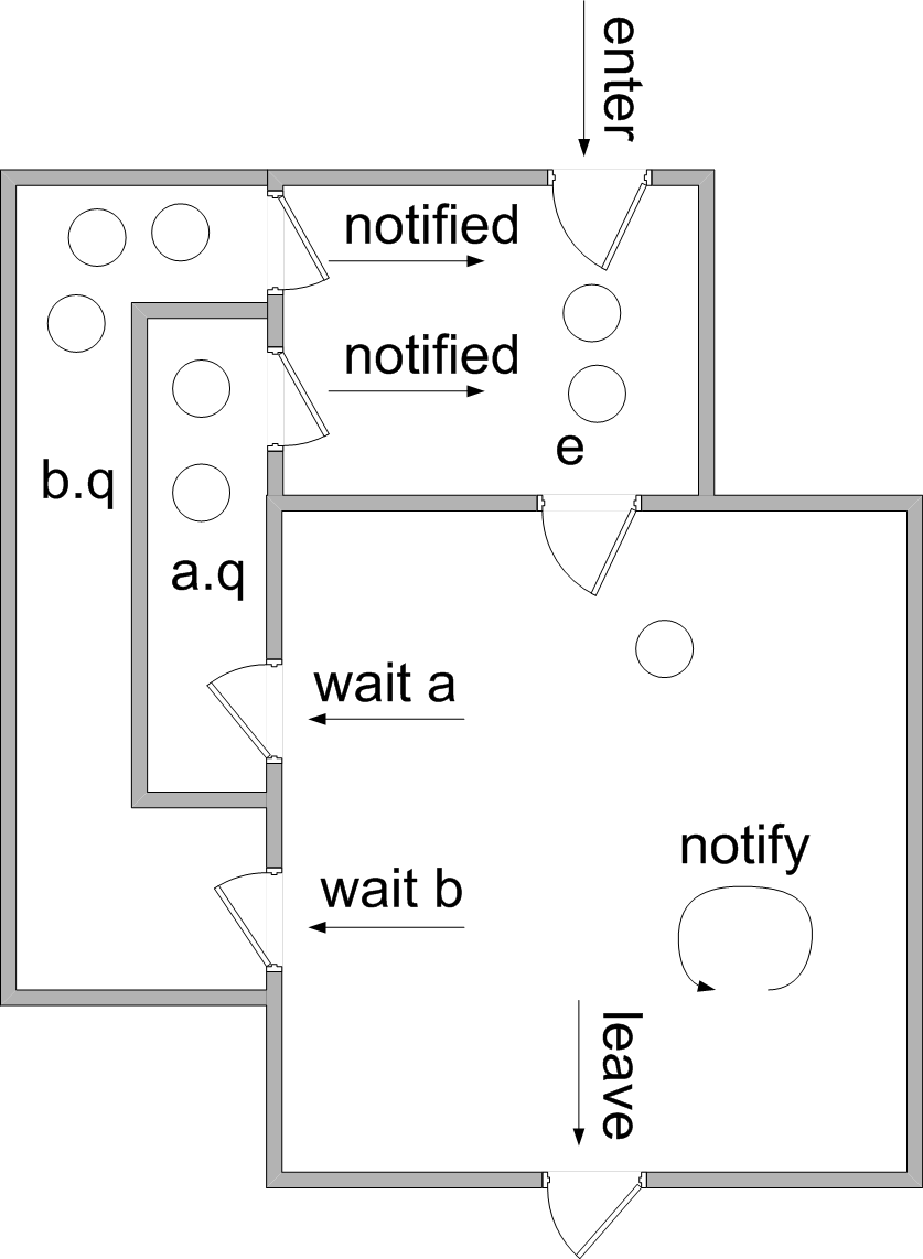 An illustration of the queues involved in a Mesa style monitor.